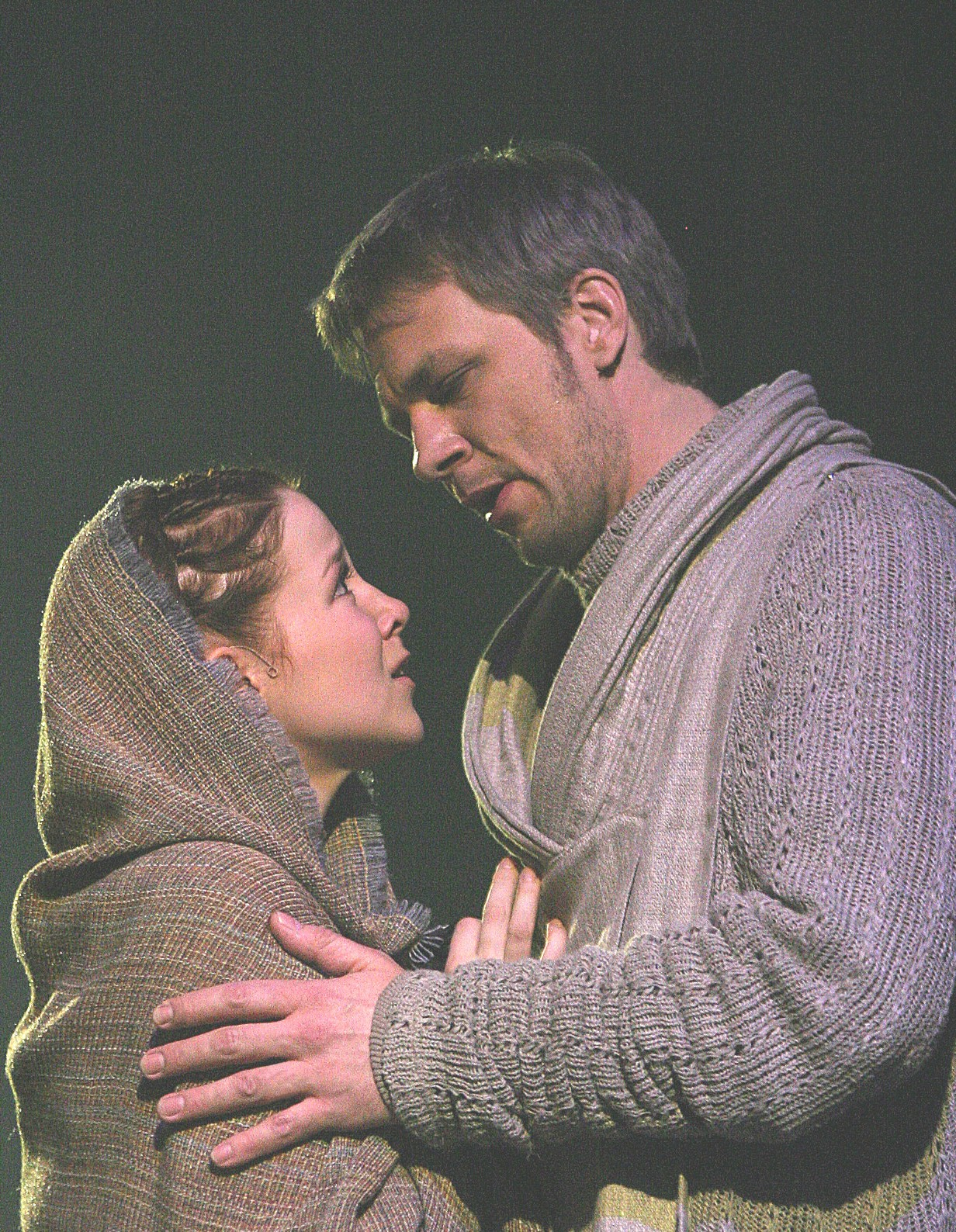 ROMEO & JULIET "Lord Capulet alternate / Prince Of Verona / Lorenzo" - Raimundtheater Vienna (Austria)